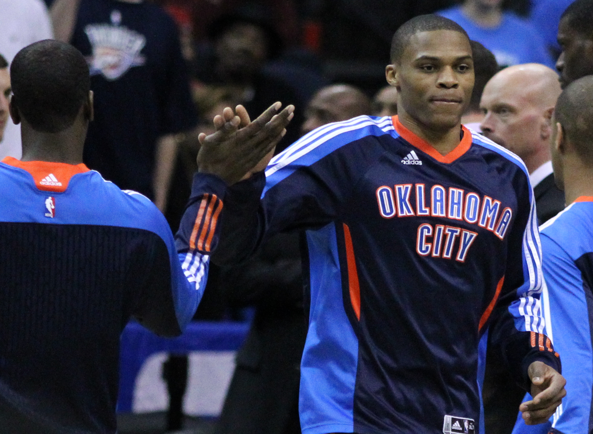 Wizards v/s Thunder 03/14/11